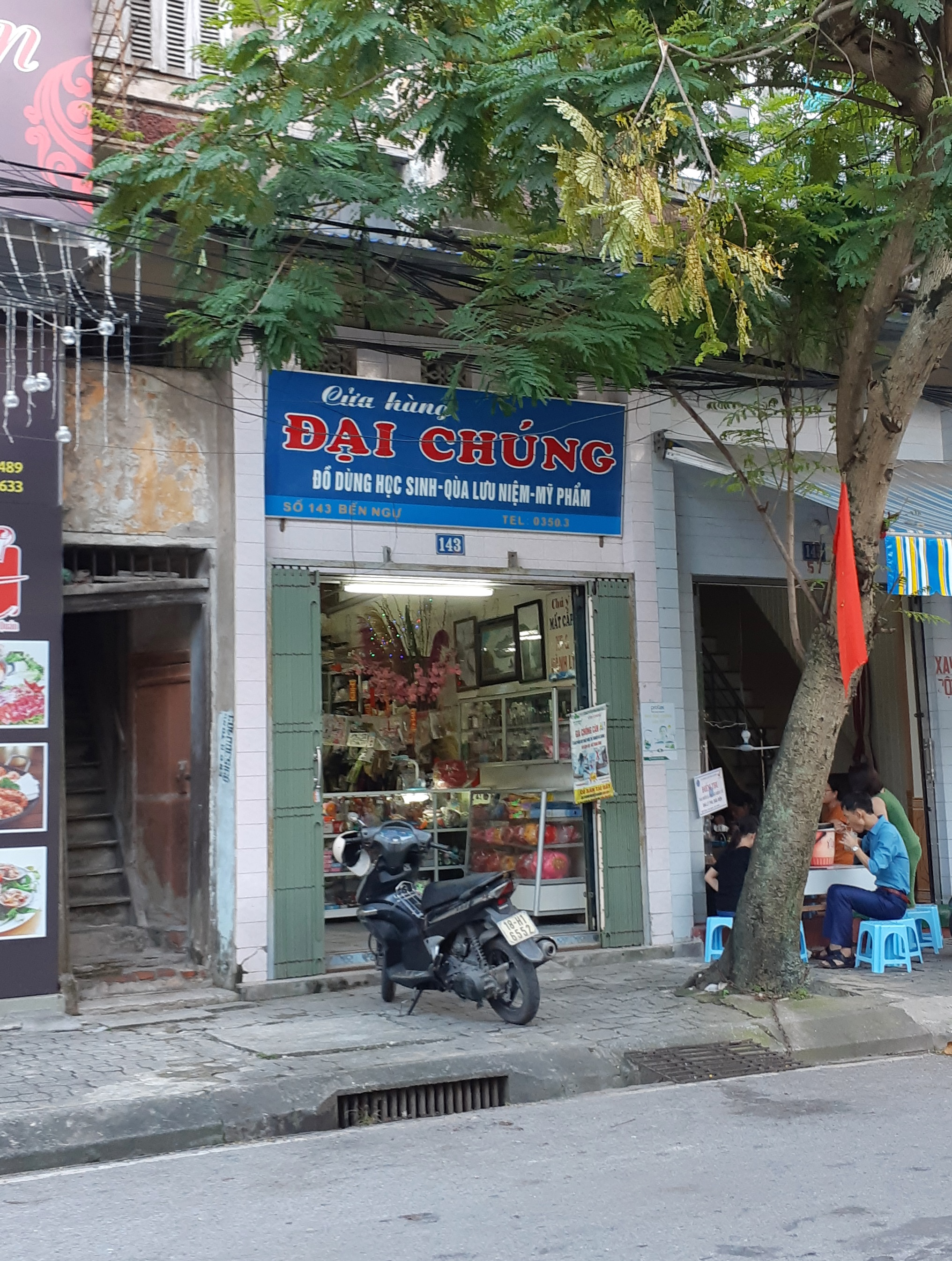 Dai Chung Store having sold posters of many Taiwanese idols, at 143 Ben Ngu Street, Nam Dinh City, Nam Dinh Province, Vietnam.